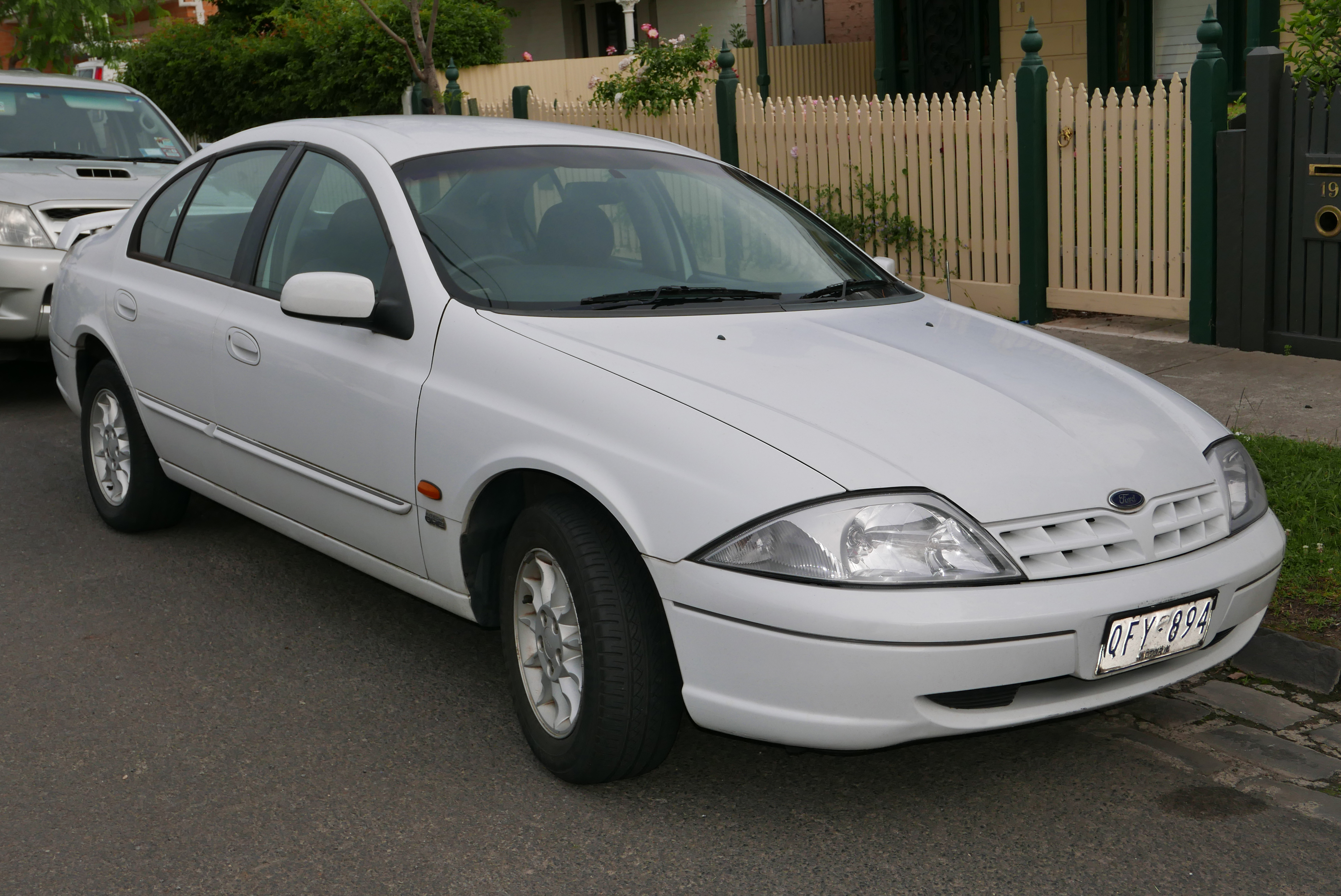 2000 Ford Falcon (AU) Classic sedan. Photographed in Ascot Vale, Victoria, Australia. Vehicle registration enquiry resultsJurisdictionVictoriaRegistrationQFY894Chassis code6FPAAAJGSWYA36251Engine codeJGSWYA36251Compliance date2000-02Year of manufacture2000